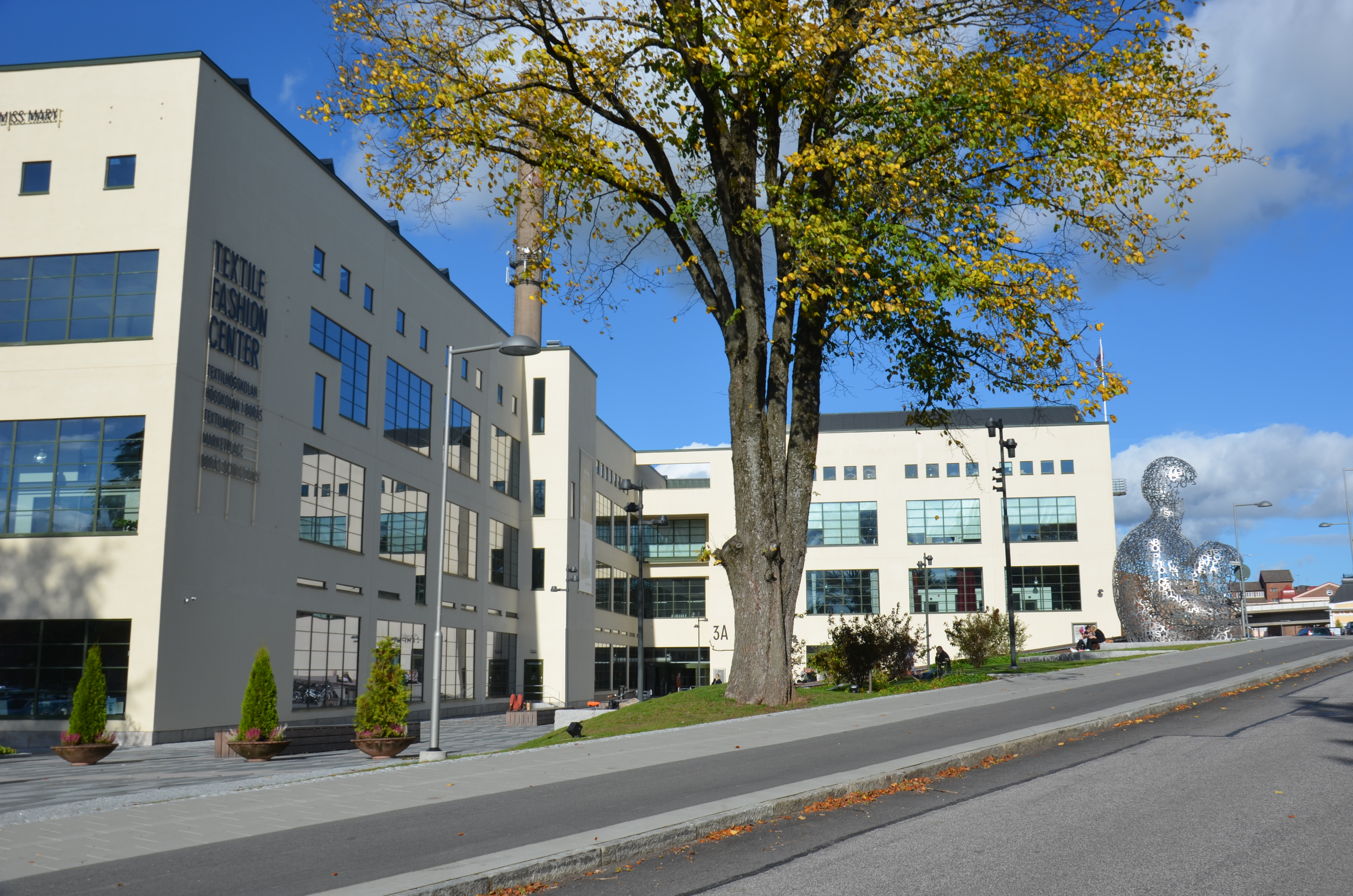 Textile Fashion Center i Borås